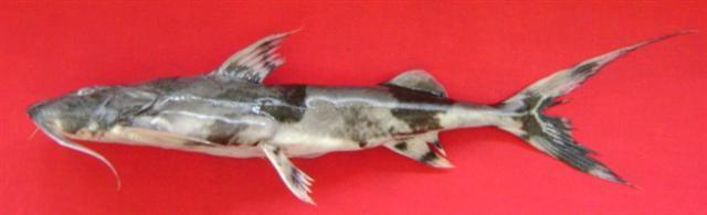 Bagarius bagarius, Karachi, Pakistan